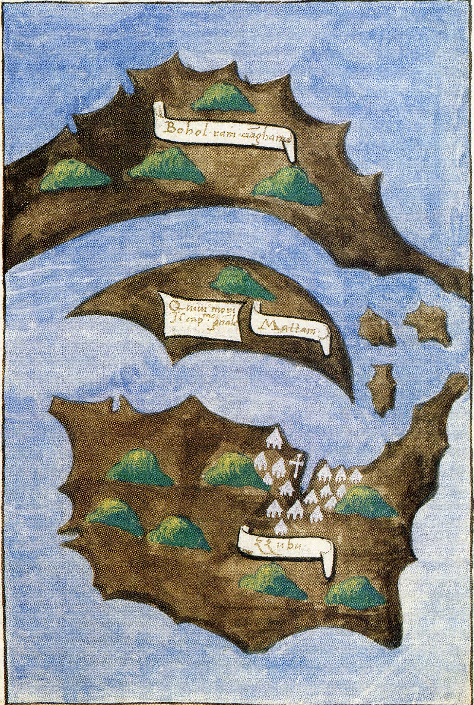 a map of islands touched by the Magellan's expedition about the year 1521